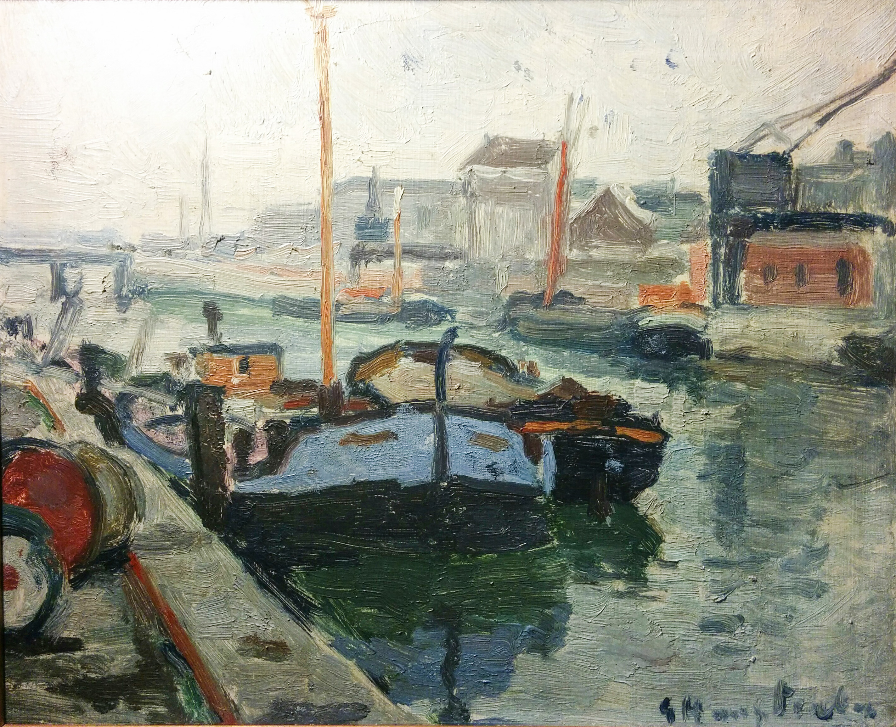 Harbour view.